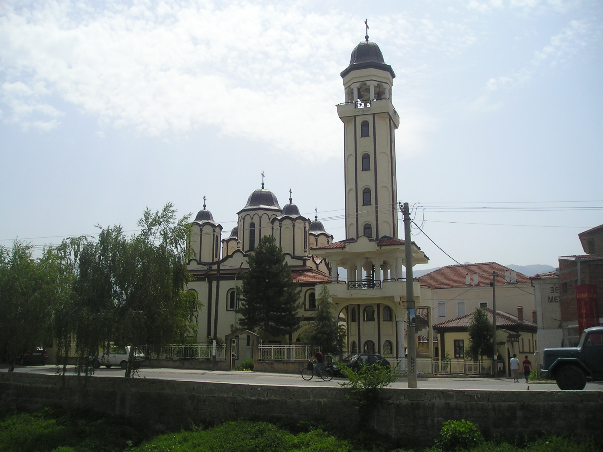 Church Sveto Preobrazhenie in Prilep, Macedonia